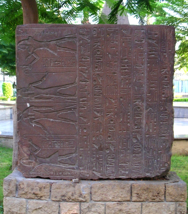 Back of the relief of the Chamber 70 from the temple of Athribis, showing a Ramses II reused stela - Garden of the Cairo Museum (photo 15-August-2005).